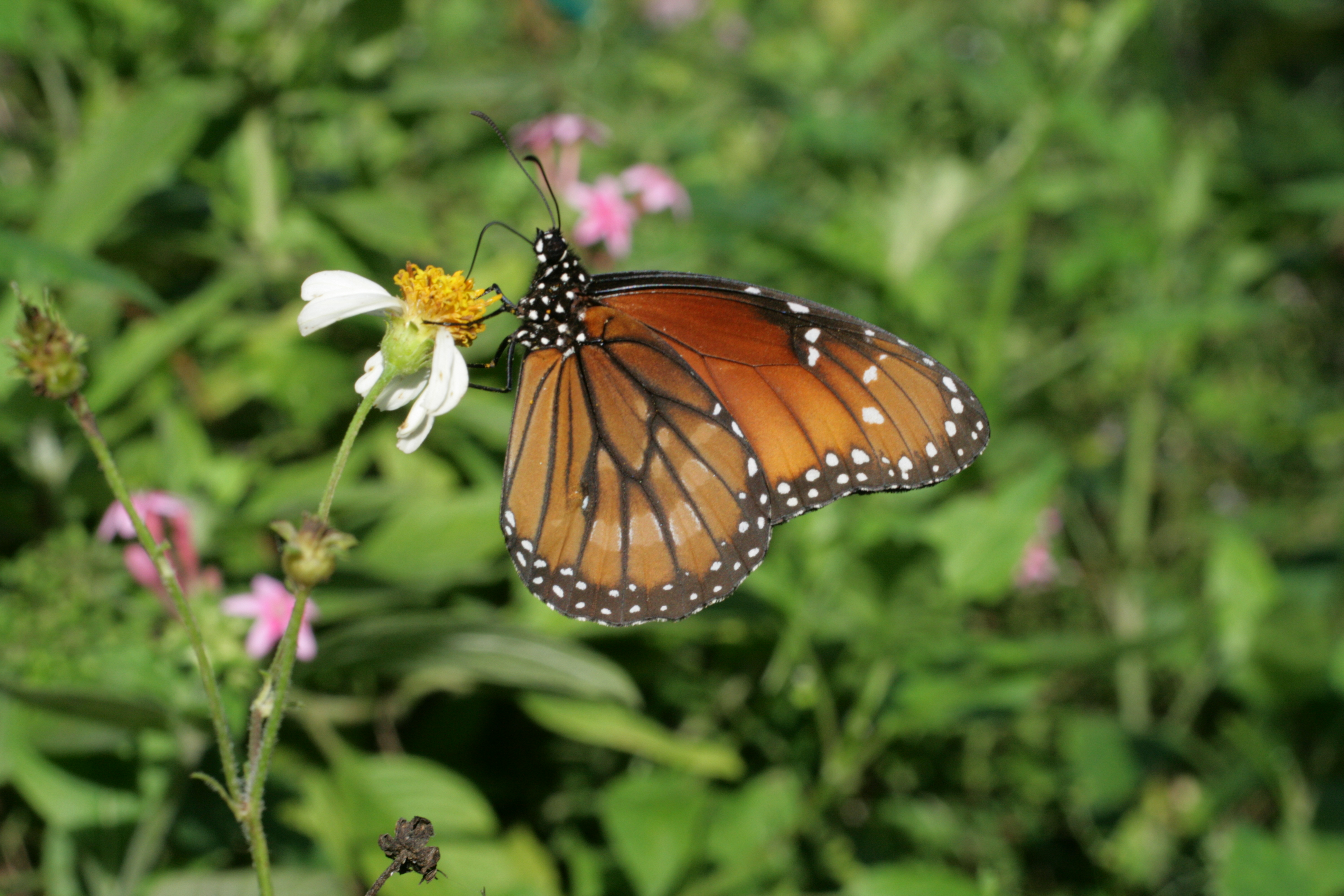 Soldier butterfly, Danaus eresimus seen in Secret Woods nature center in Broward County in Florida.